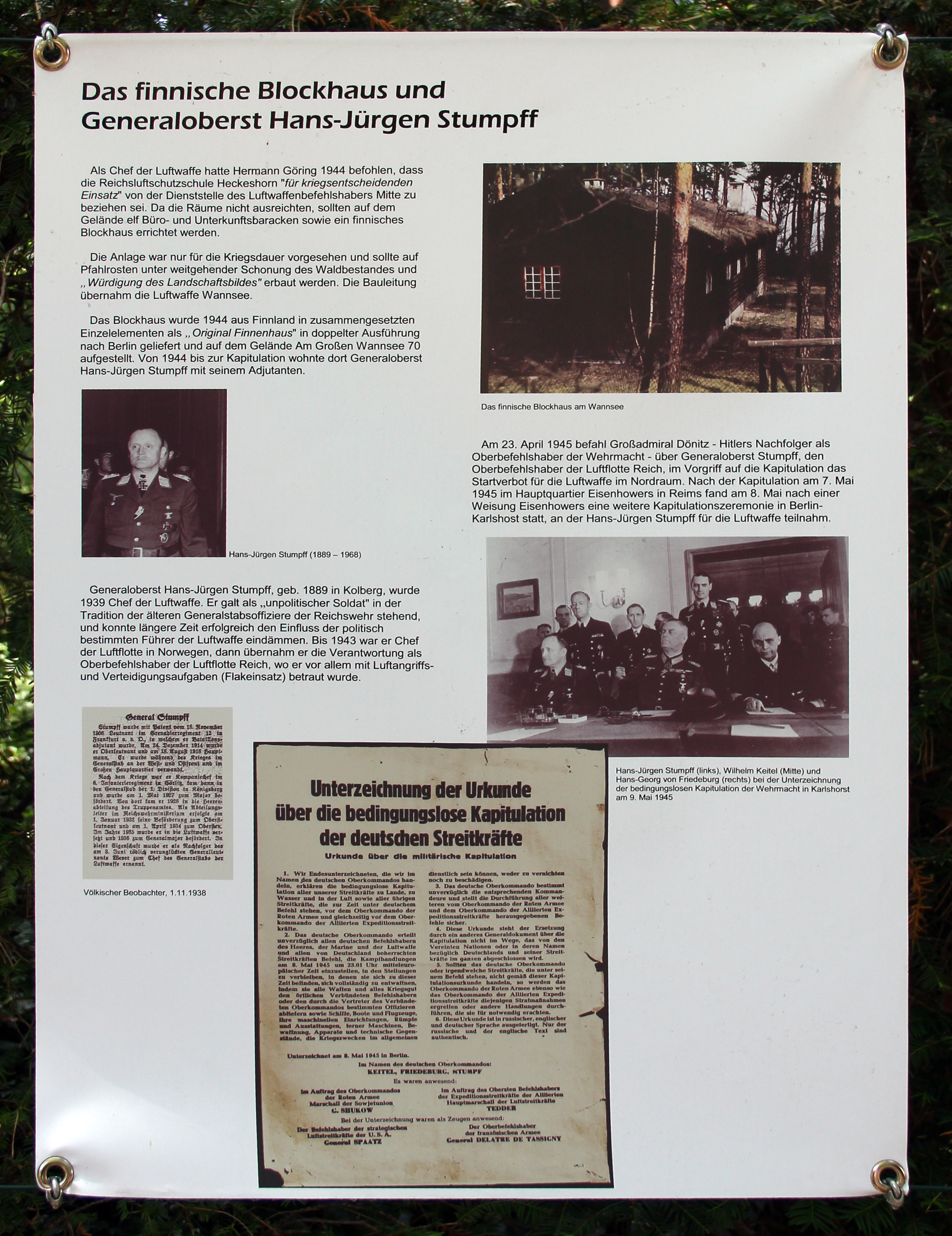 Memorial plaque, Hans-Jürgen Stumpff, Am Großen Wannsee 58, Berlin-Wannsee, Germany